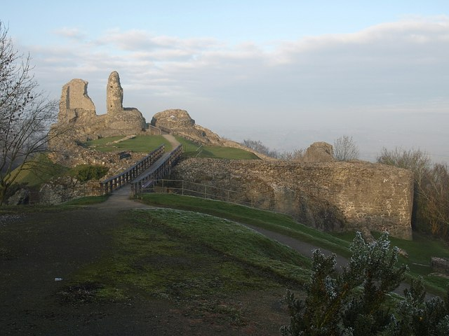 Montgomery Castle (3) An overview of the castle from the south, with a weak sun breaking through mist.